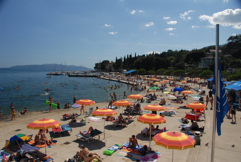 Showing the best of Icici